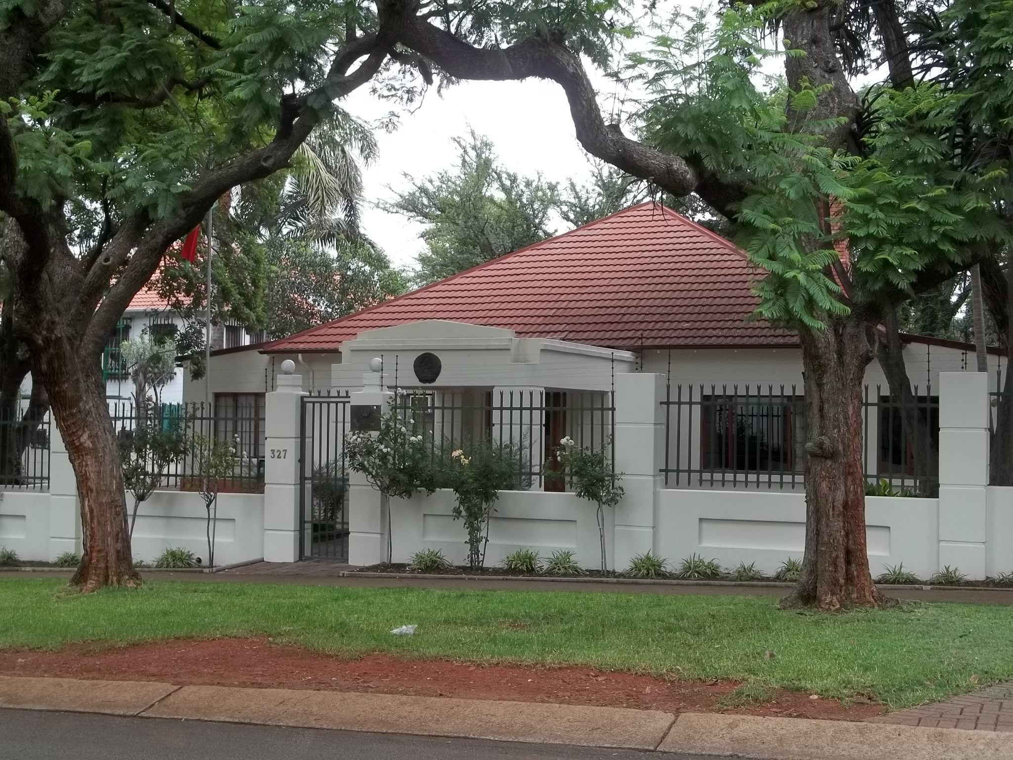 BE in ZA